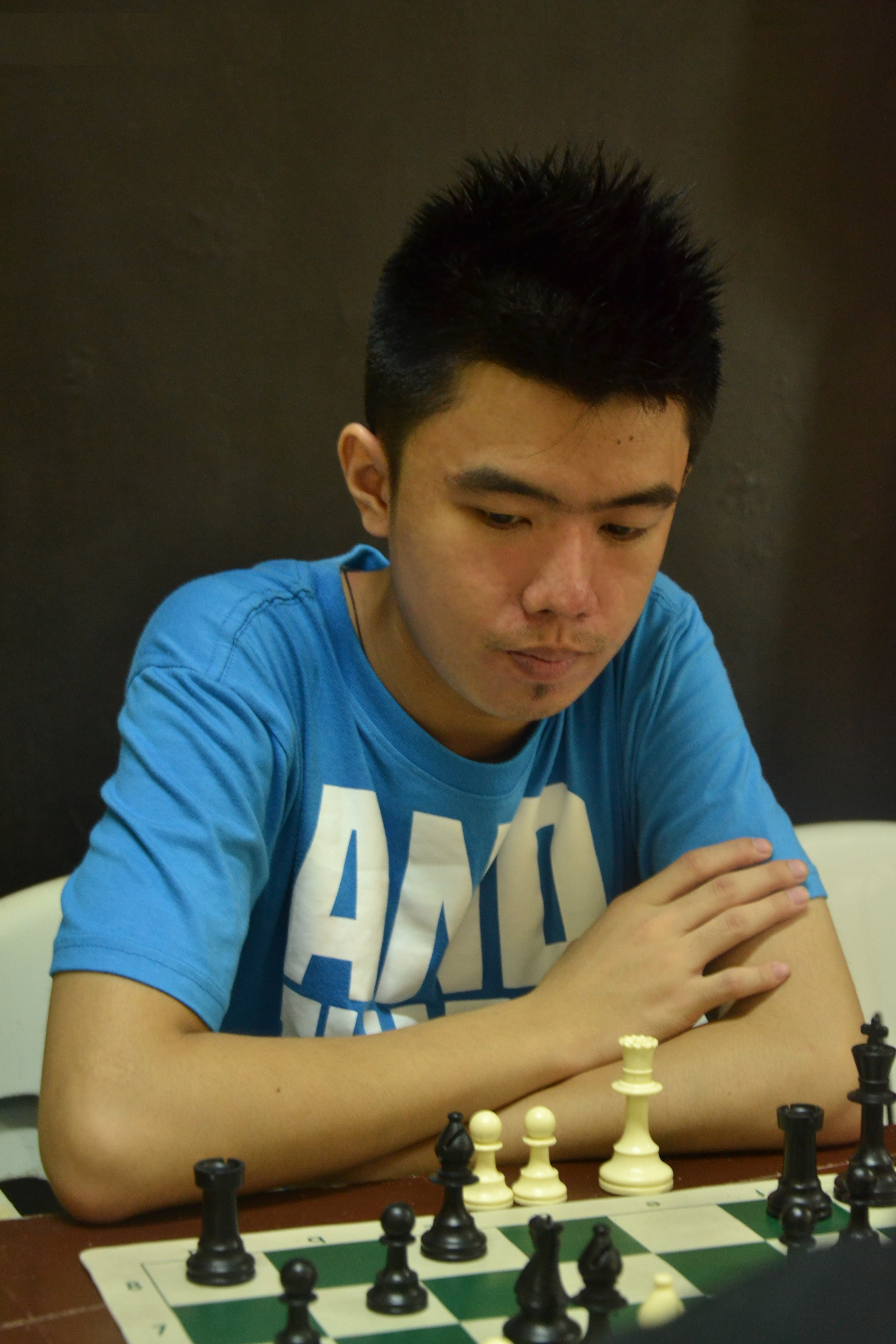 Lexis Bruce A. Portacion,2014